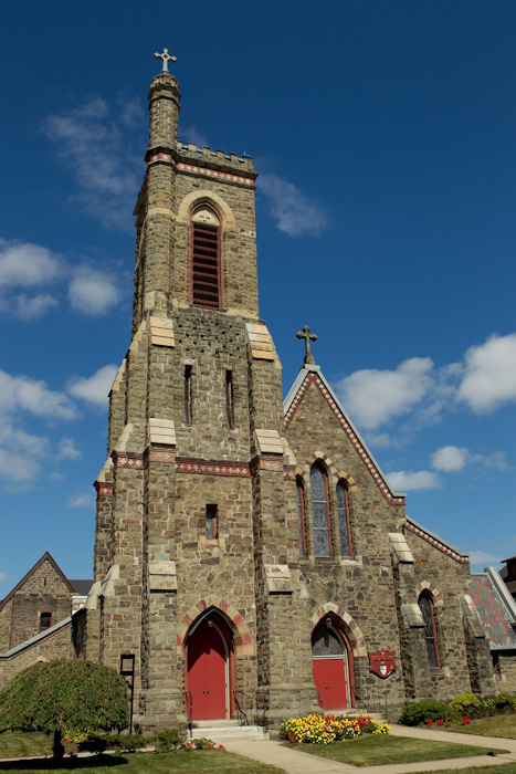 Exterior photo of Christ Episcopal Church, Williamsport, PA